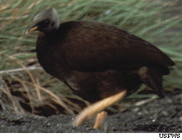 Micronesian Scrubfowl or Micronesian Megapode (Megapodius laperouse) US Fish and Wildlife Service